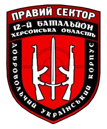 Sleeve patch of the 12th Replacement Battalion for the Ukrainian Volunteer Corps (UVC)